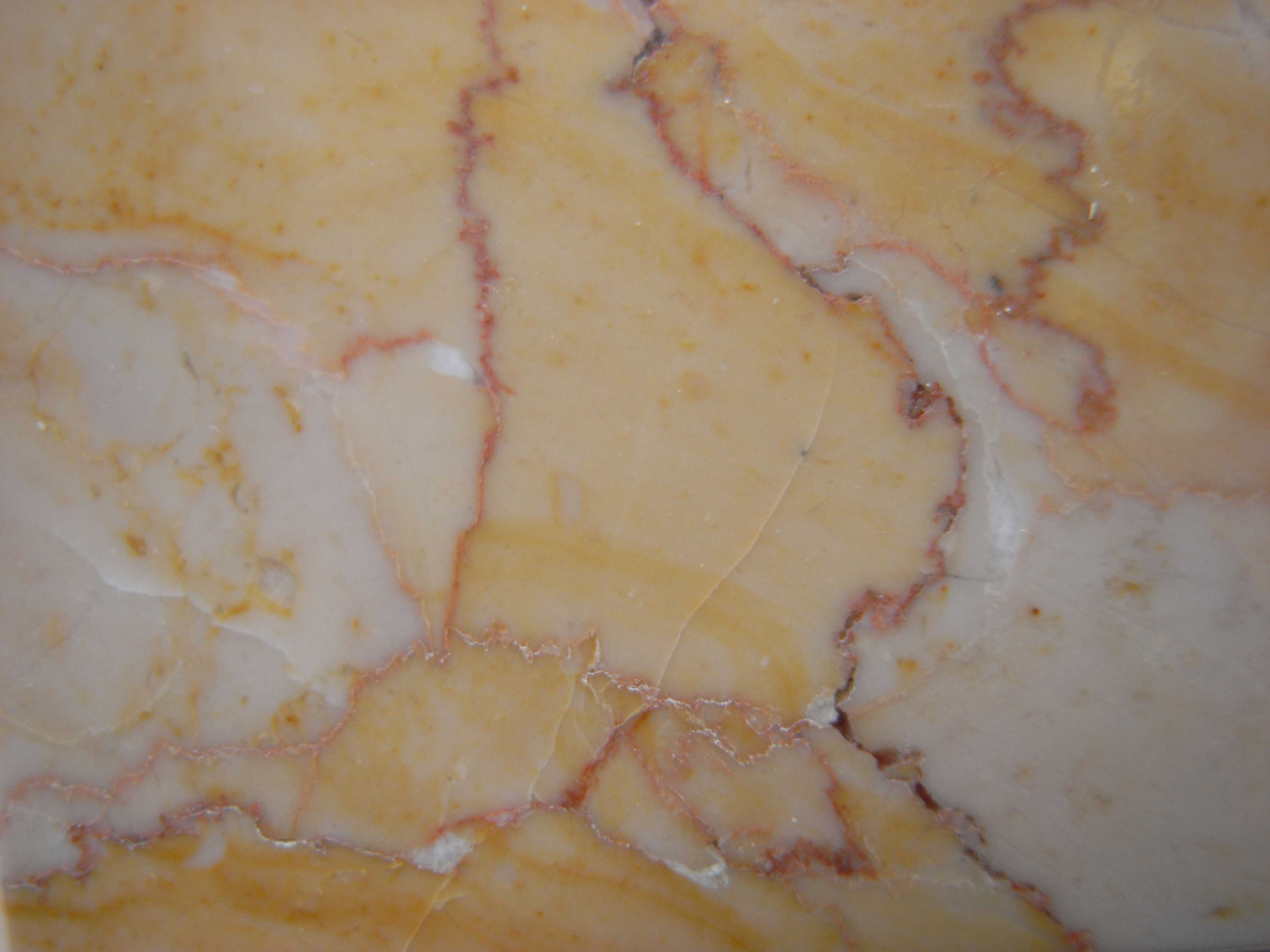 Stylolites in Siklos limestone, Hungary